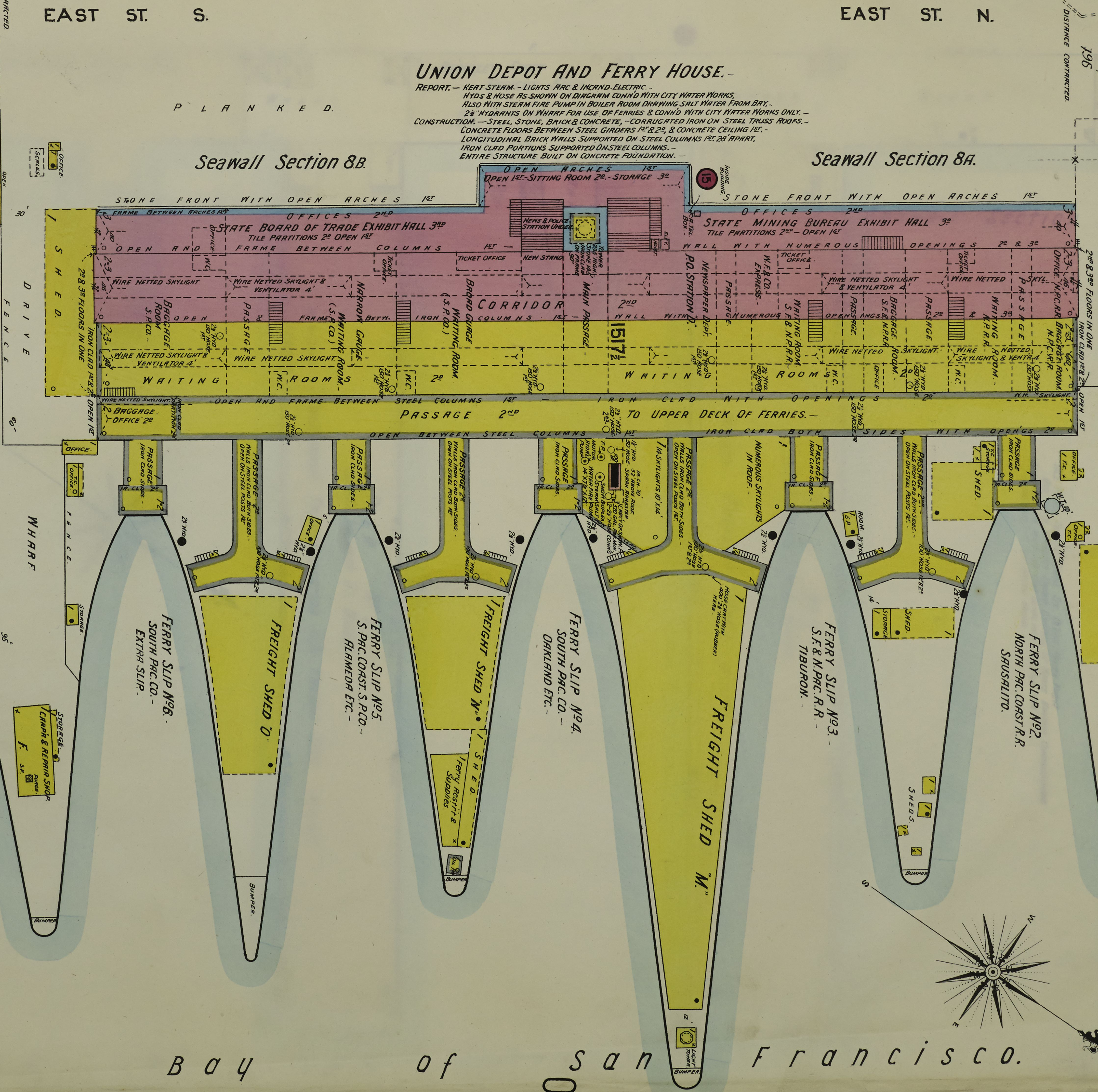 1899 Vol.1. 118 Sheet(s). Contour map of several distributing reservoirs of the Spring Valley Water Works, the districts supplied. Key map to edition. Bound.